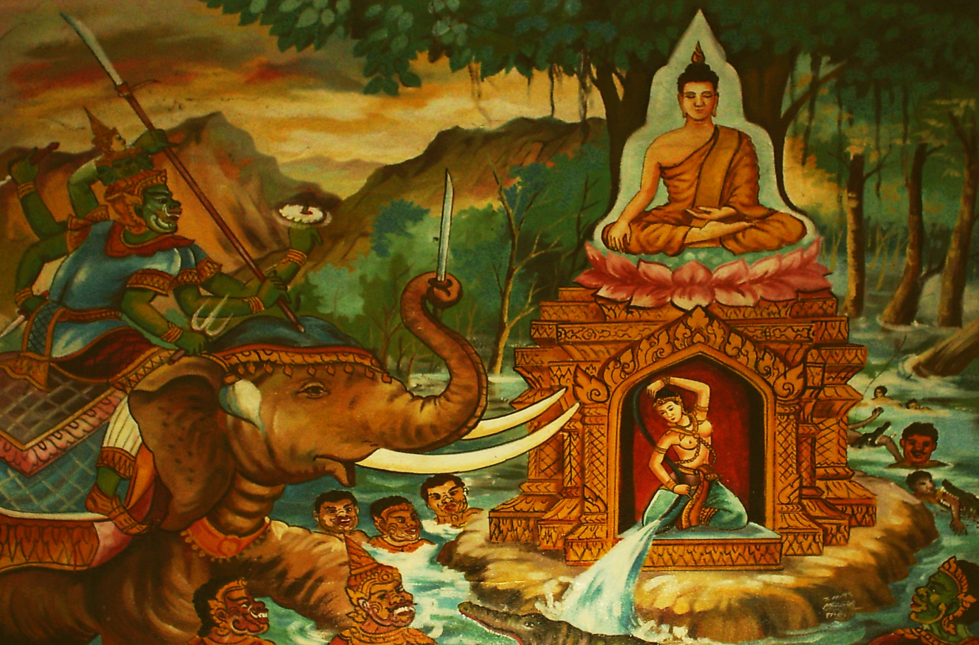 This painting depict the god Mara, trying to disturb the Bodhisatta, just before he reached enlightenment. Mara knew Buddha was close, so he put all his efforts in trying to lure Buddha back to the world. Here is the episode when Mara drives an elephant towards Buddha. To defend Him, the Earth Mother (called the Water Mother in Thailand {Maeh Toranee}) wrung out her hair, covering the land with water and drowning the demons. However, Buddha was steadfast and regarded everything that happened within and around him as just more happenings in the world, arising and passing away according to causes and conditions, with no abiding self to be found.